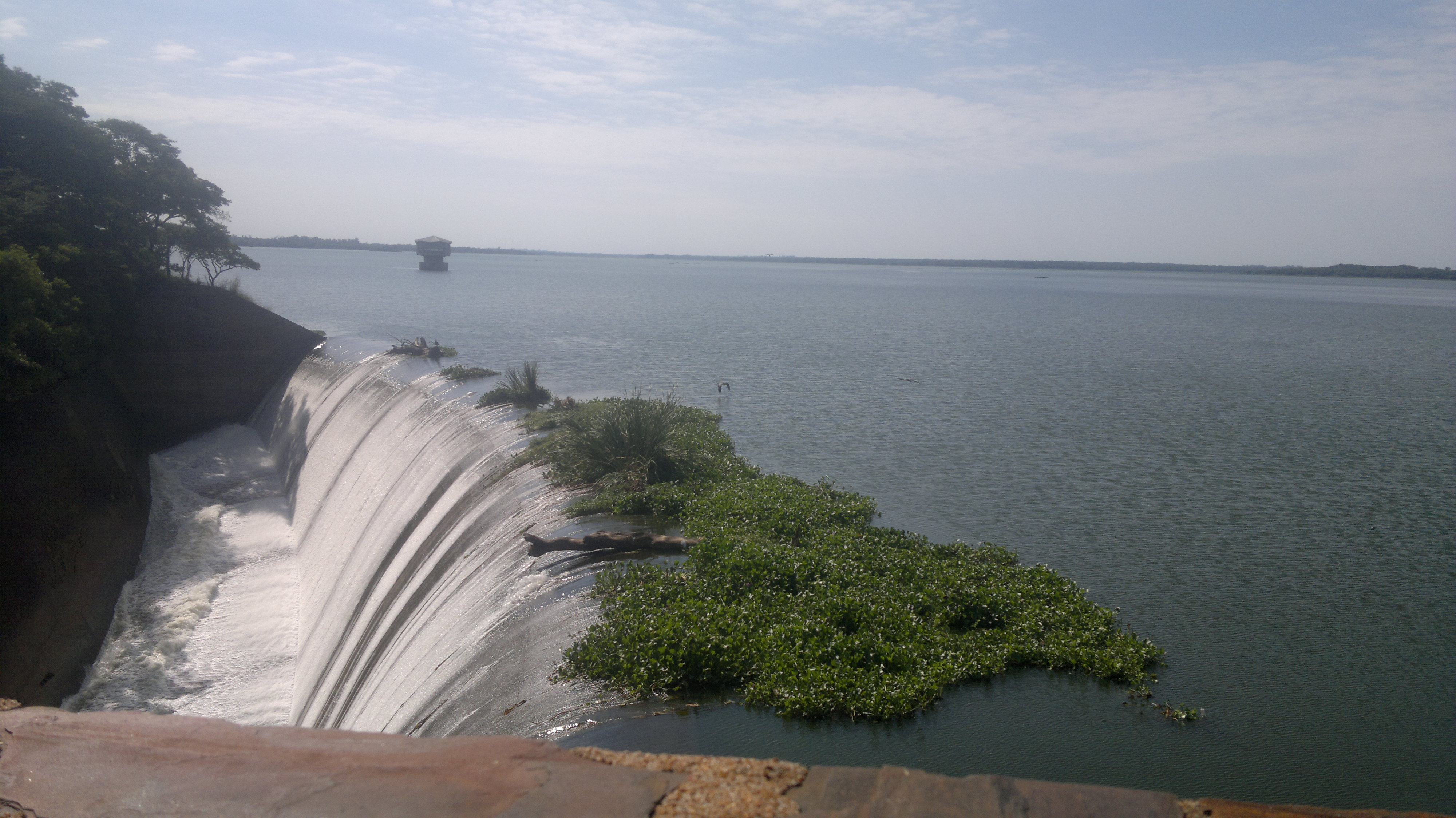 Lake Chivero spillway during the rainy season. Water flows from it to the Darwendale (Lake Manyame)